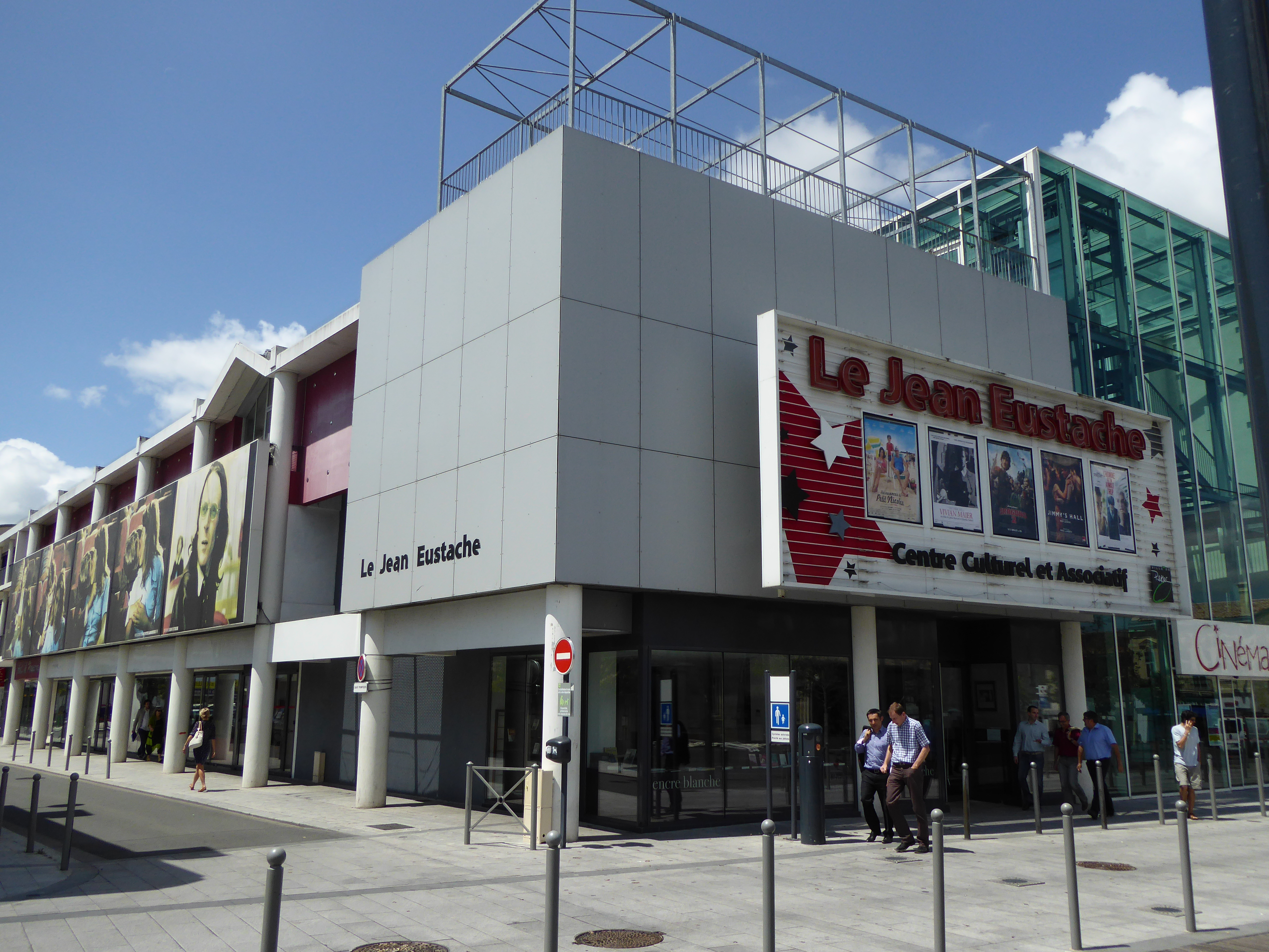 Le Jean Eustache, Place de la Ve République, Pessac, Bordeaux, France, July 2014